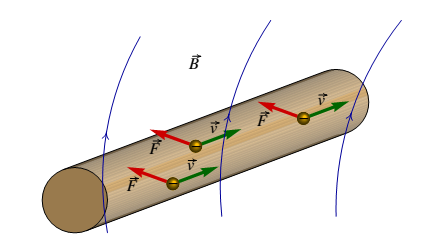 Força magnética sobre as cargas de condução, num condutor com corrente.